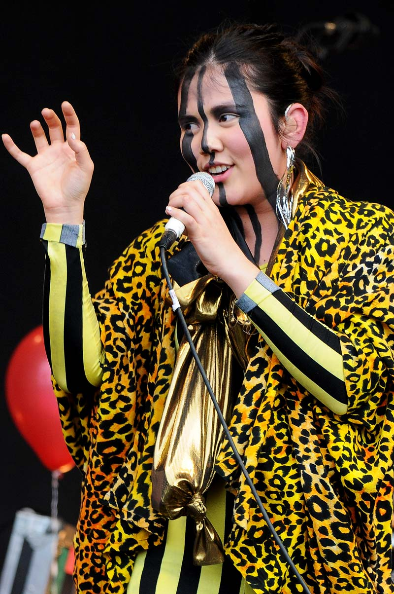 Brazilian singer Lovefoxxx, at the Rise Festival in 2008. Photo courtesy Matt Scandrett (